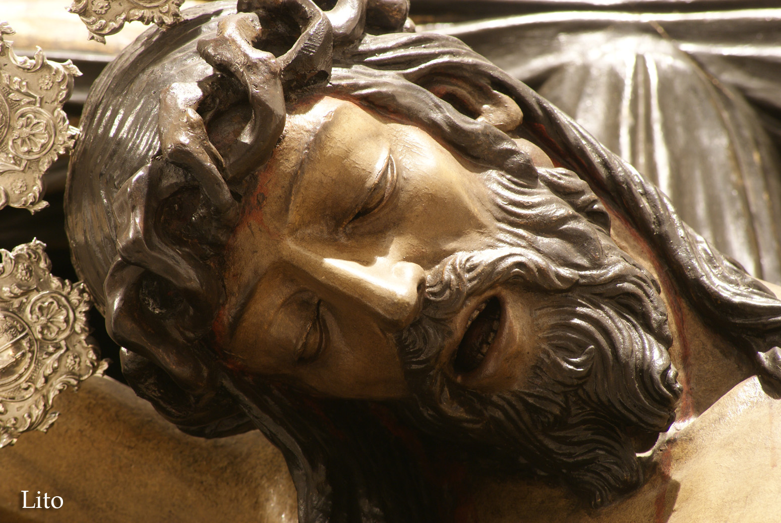 Jesús de la Vera Cruz